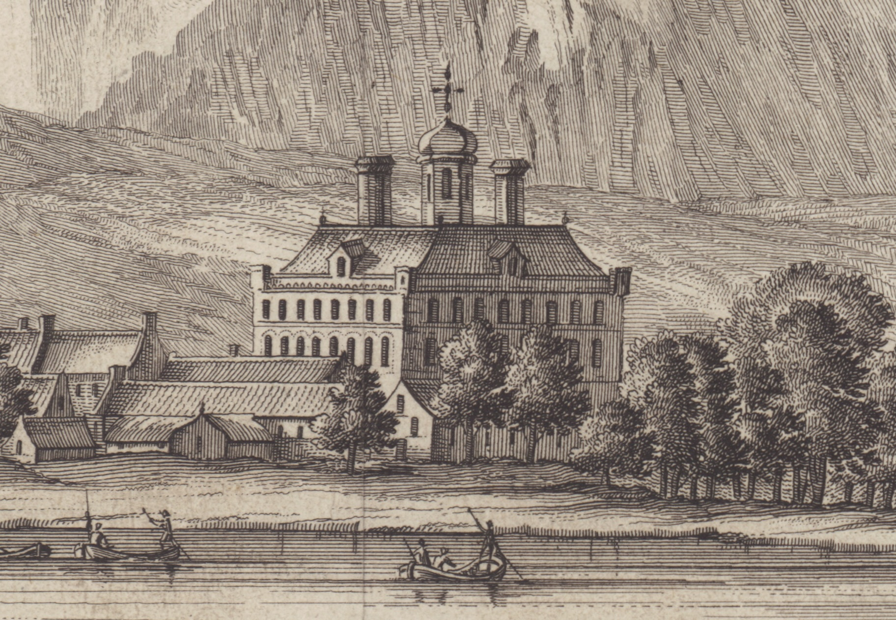 Old Dunkeld House detail from "The Prospect of the Town of Dunkeld", Dunkeld in the 17th century from Slezer's Theatrum Scotiae, Sheet 24. Image from Theatrum Scotiae by John Slezer, 1693